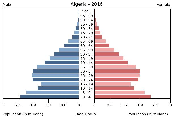 The population pyramid of Algeria illustrates the age and sex structure of population and may provide insights about political and social stability, as well as economic development. The population is distributed along the horizontal axis, with males shown on the left and females on the right. The male and female populations are broken down into 5-year age groups represented as horizontal bars along the vertical axis, with the youngest age groups at the bottom and the oldest at the top. The shape of the population pyramid gradually evolves over time based on fertility, mortality, and international migration trends.